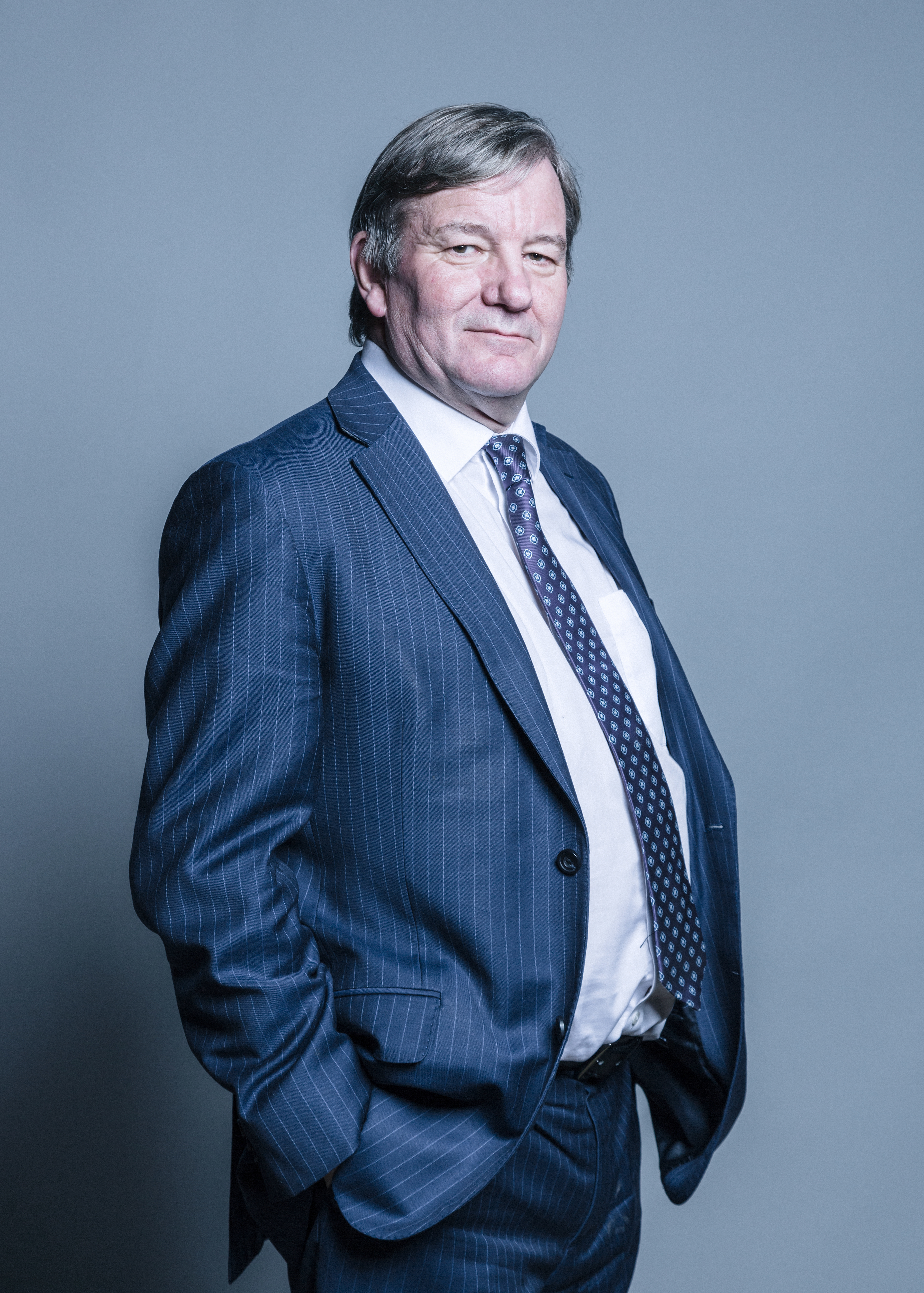 Official portrait of Lord Mawson